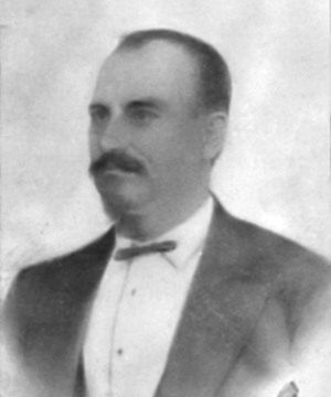 Academician Simeon Mangiuca (1831-1890)